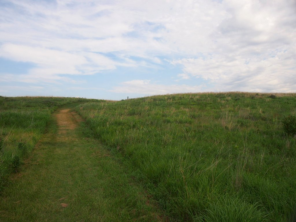 A connector trail in Buffalo River State Park, Minnesota, USA